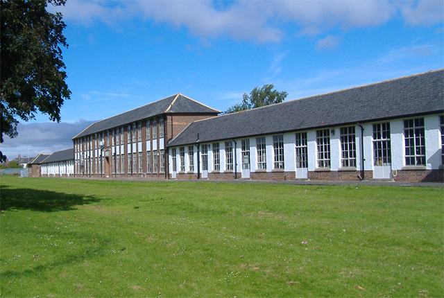 Endike Primary School On Endike Lane. Caters for around 320 pupils aged 3-11.